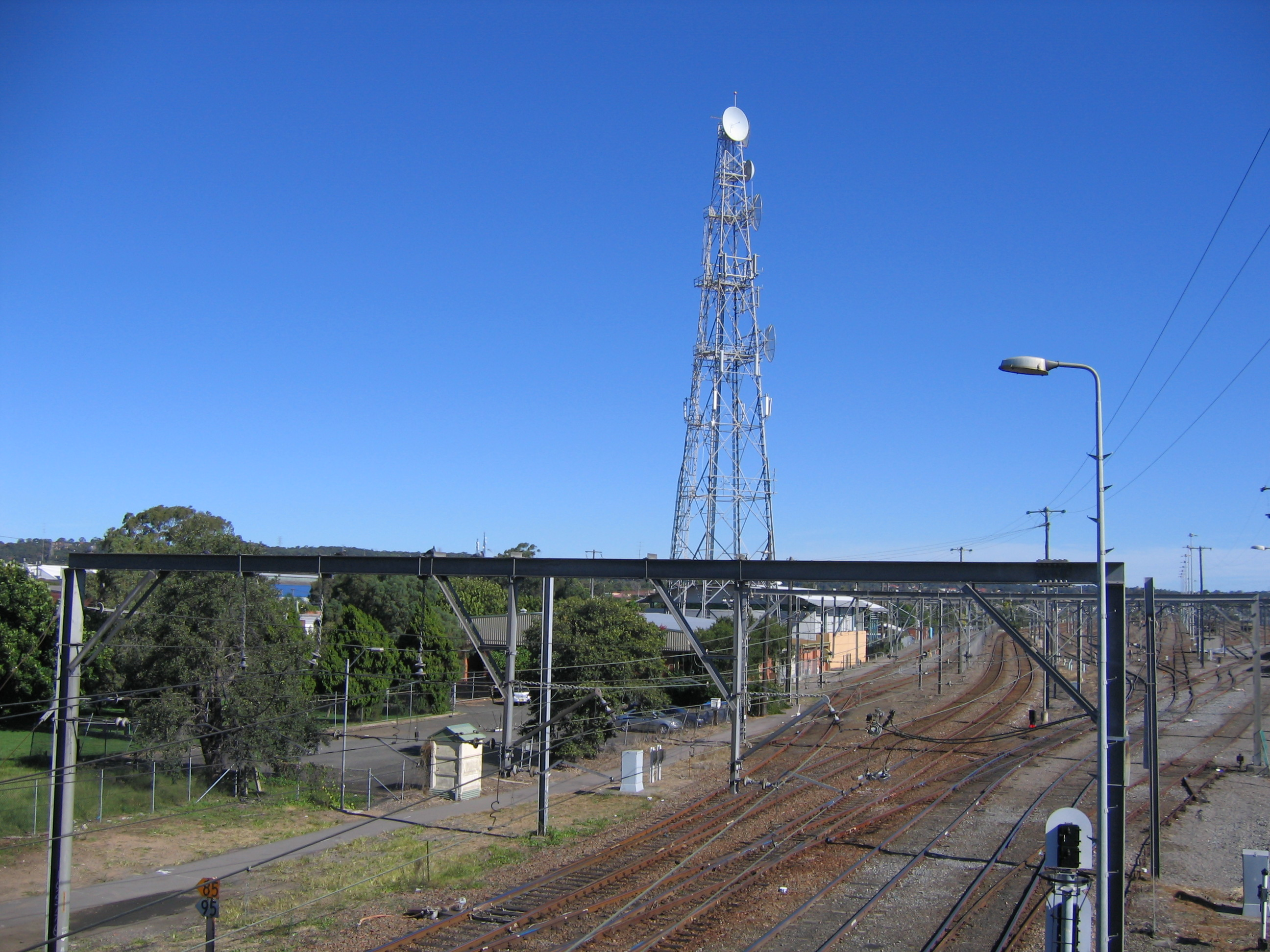 Broadmeadow Railway yard and ARTC Central Traffic Control viewed from road bridge